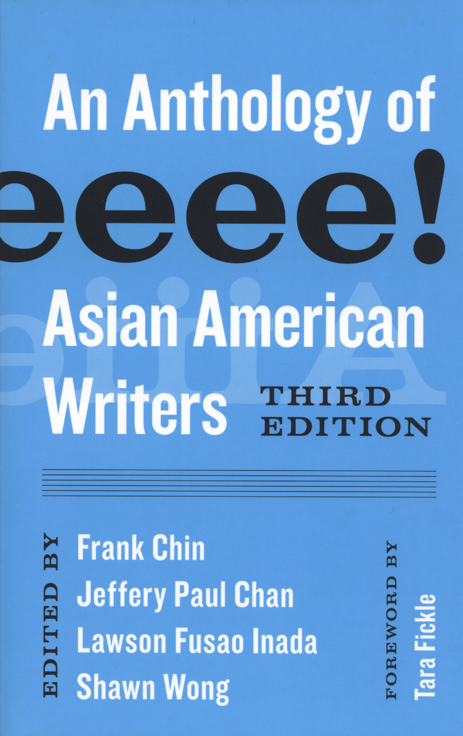 3rd edition of Aiiieeeee! An Anthology of Asian American Writers. Design by Katrina Noble. University of Washington Press November 2019